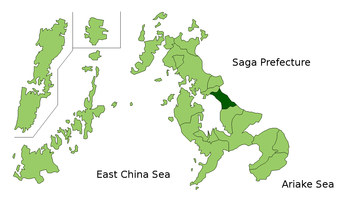 The location of Higashisonogi in Nagasaki Prefectuur, Japan